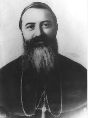 Louis Piazzoli (12 May 1845-26 December 1924) was the Apostolic Vicar of Hong Kong from January 11, 1895 to 1904.